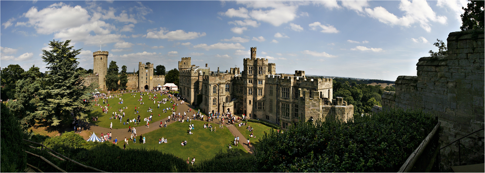 Great Britain, Warwick Castle